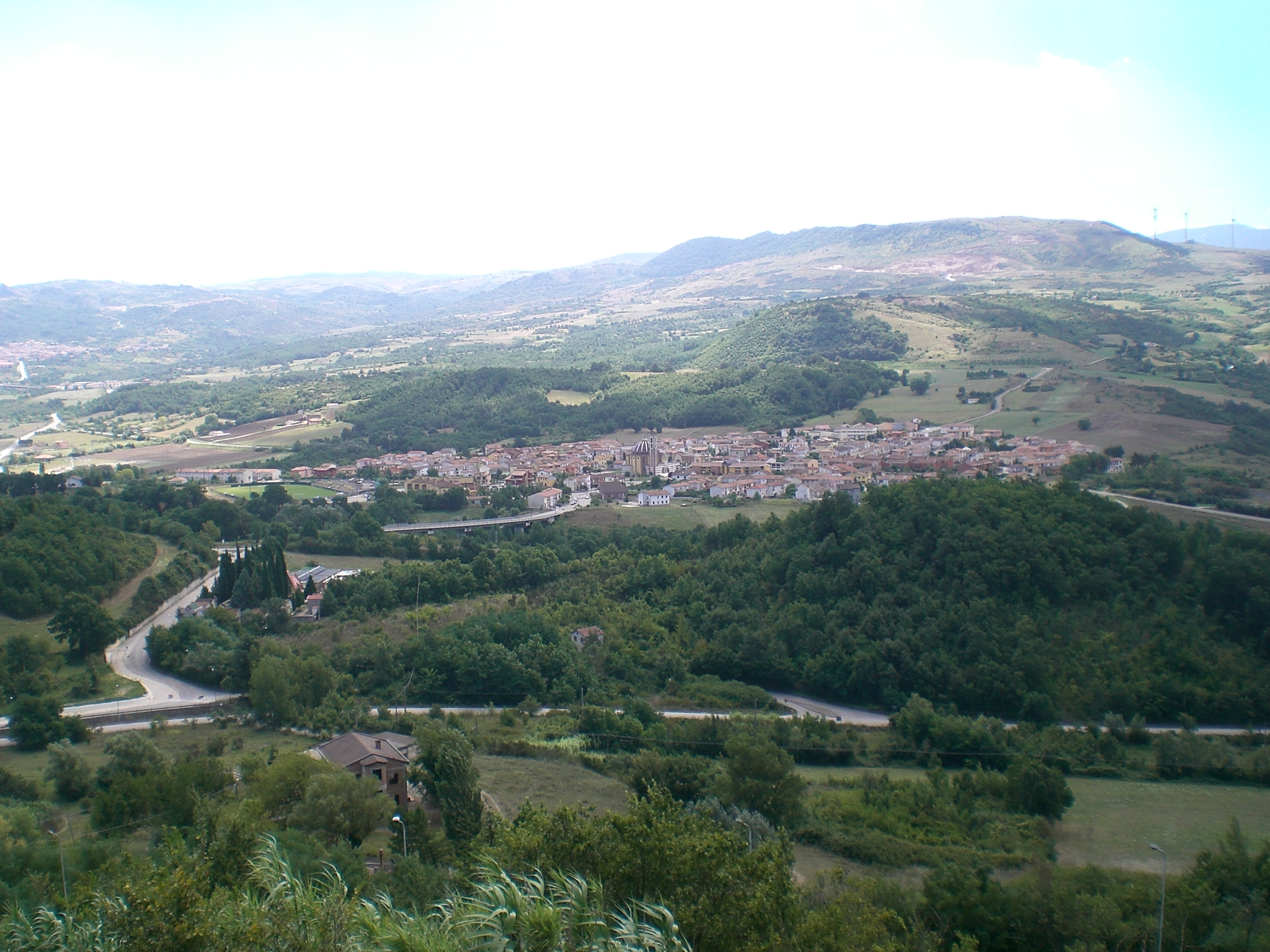 View of the new Conza della Campania